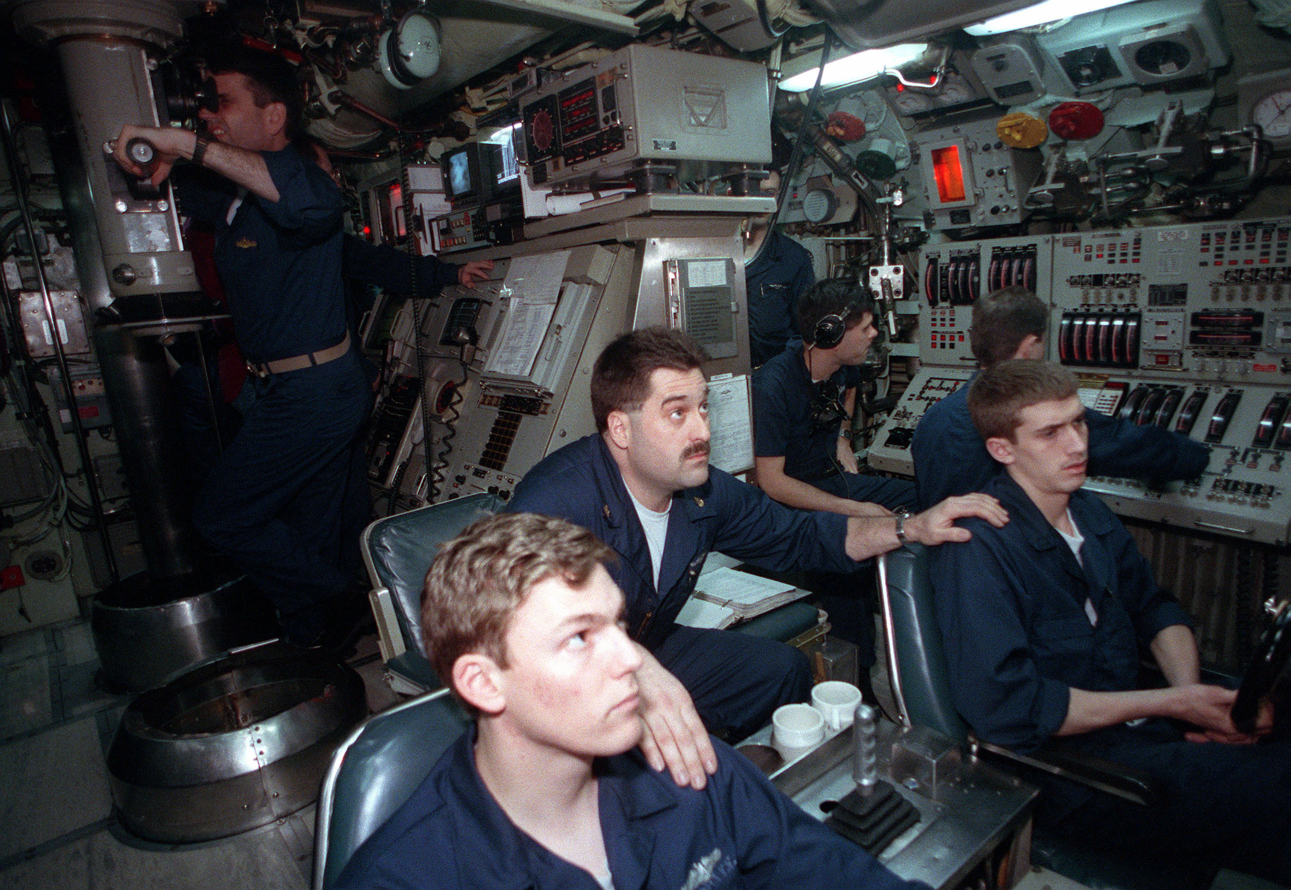 QMC O'Connor, a chief petty officer talks to the helmsmen aboard the nuclear-powered attack submarine USS PARGO (SSN-650) (Sturgeon Class) as CDR David W. Hearding, the submarine's commanding officer, looks through the periscope. The PARGO is underway north of the Arctic Circle.